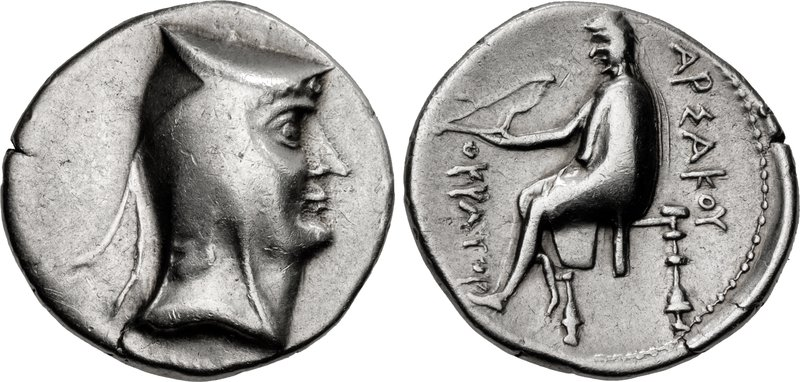 Coin of Arsaces I, Nisa mint.